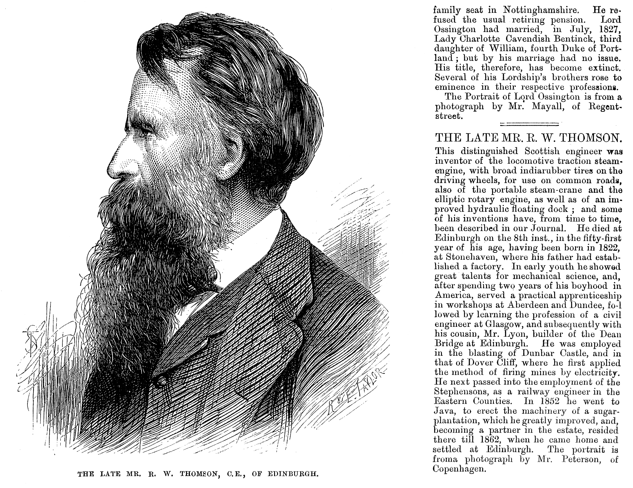 Obituary of Robert William Thomson, Scottish engineer and inventor of the locomotive traction steam engine. The text above his obituary is the end of Lord Ossington (John Evelyn Denison)'s obituary.